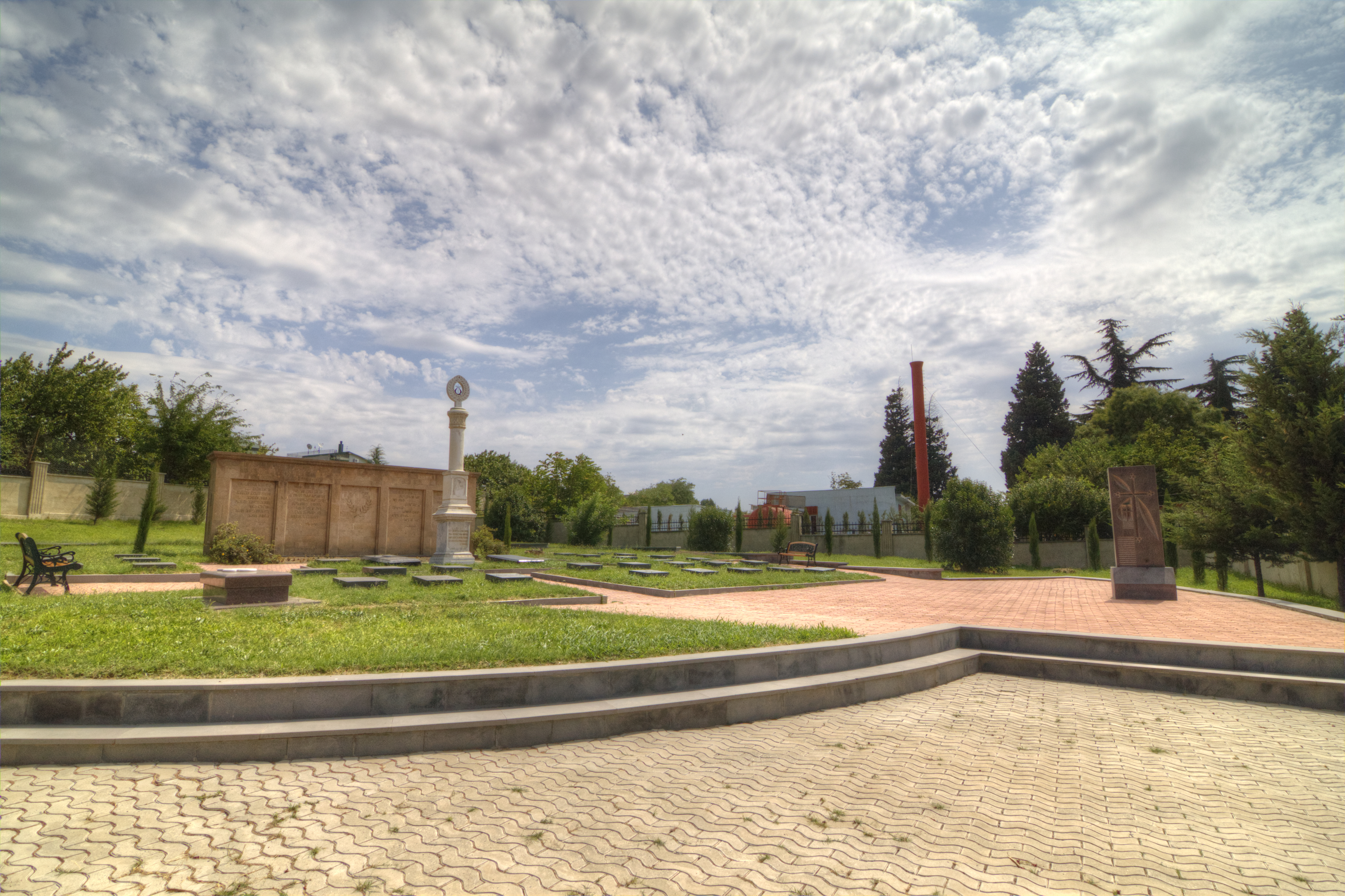 The current state of the Armenian Pantheon of Tbilisi.